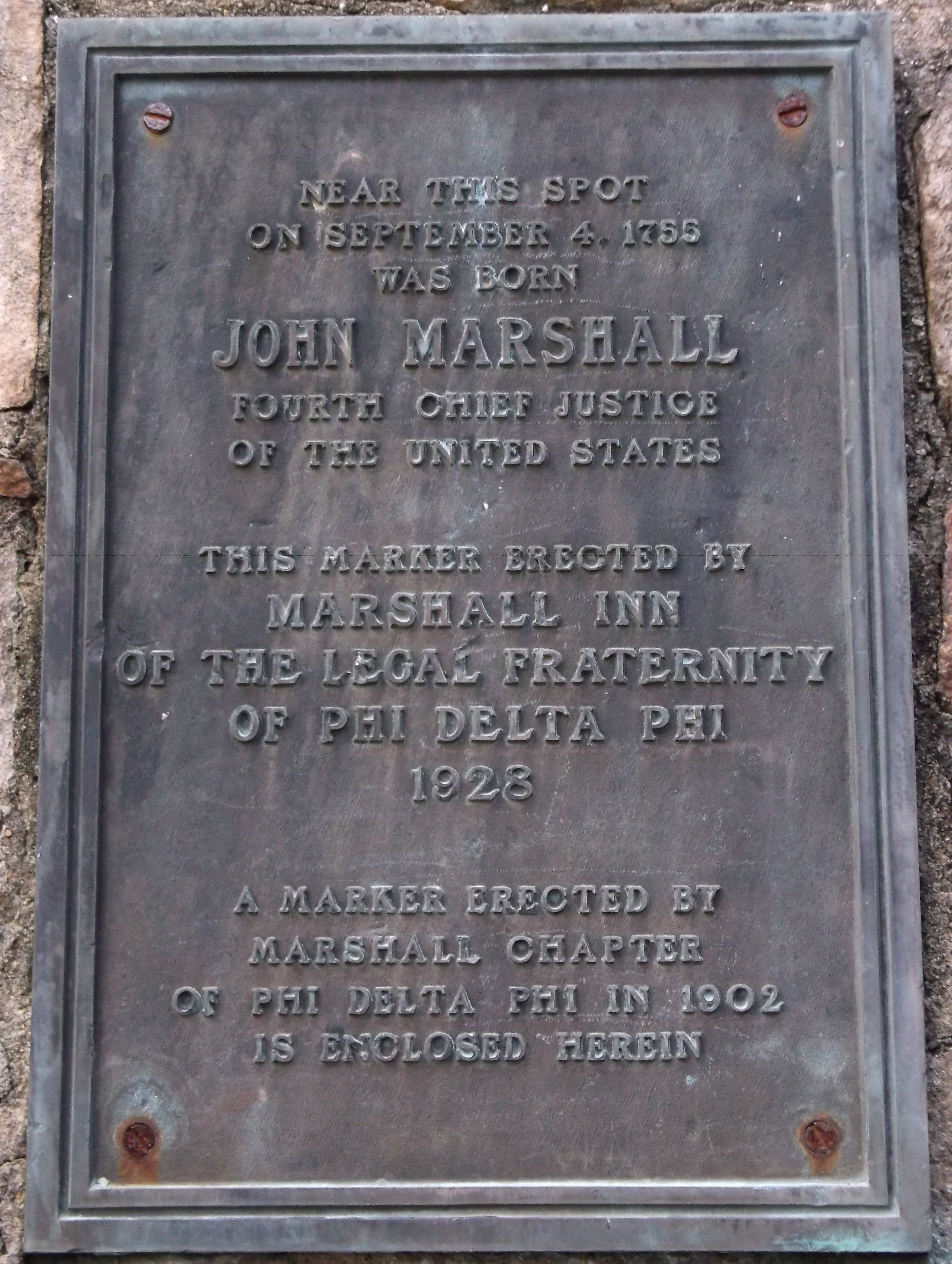 The plaque affixed to the momument at the site of the birthplace of John Marshall